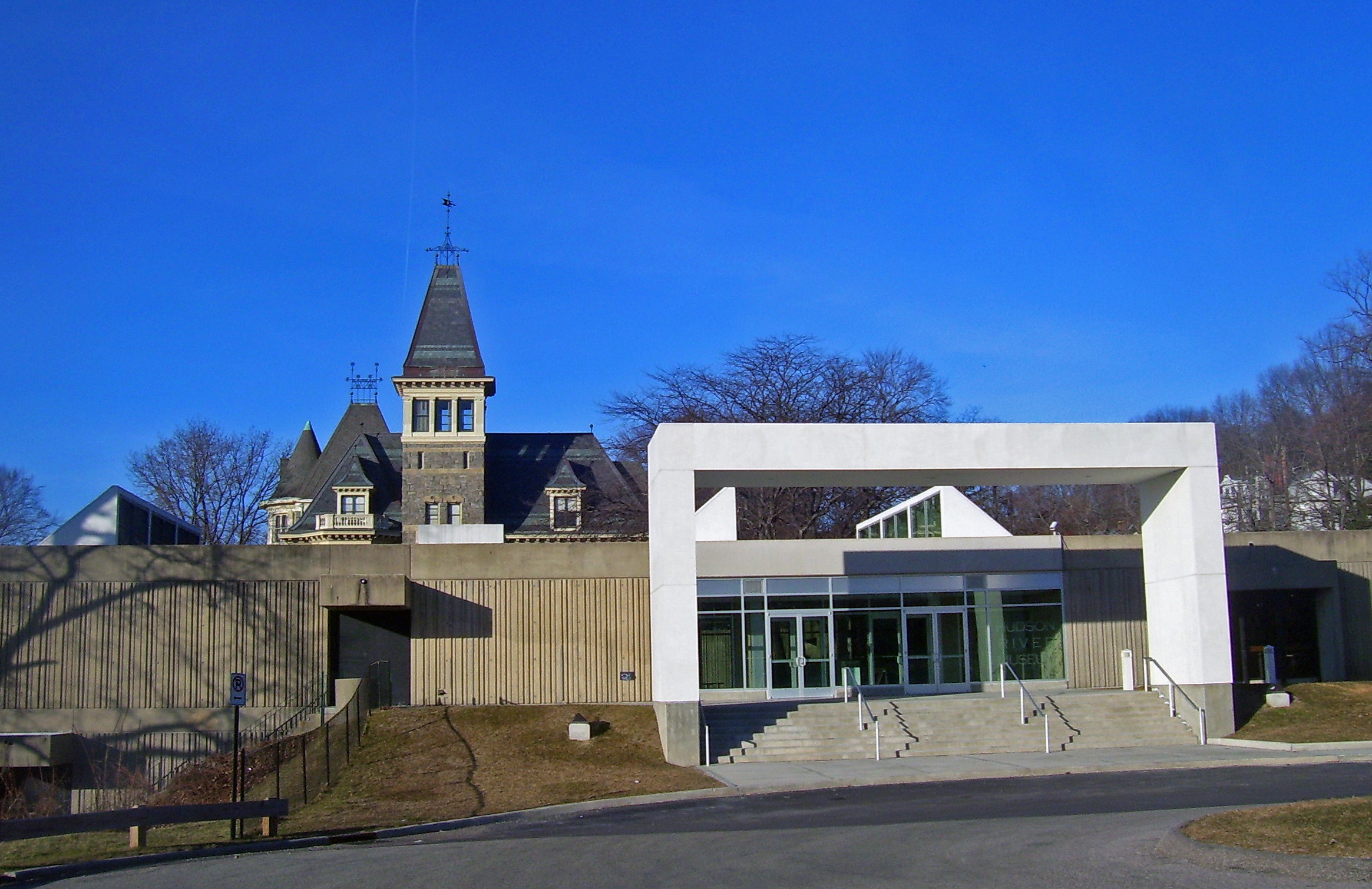 Glenview Mansion, Yonkers, NY, USA, as seen within its current context, the 1969 building of the Hudson River Museum.